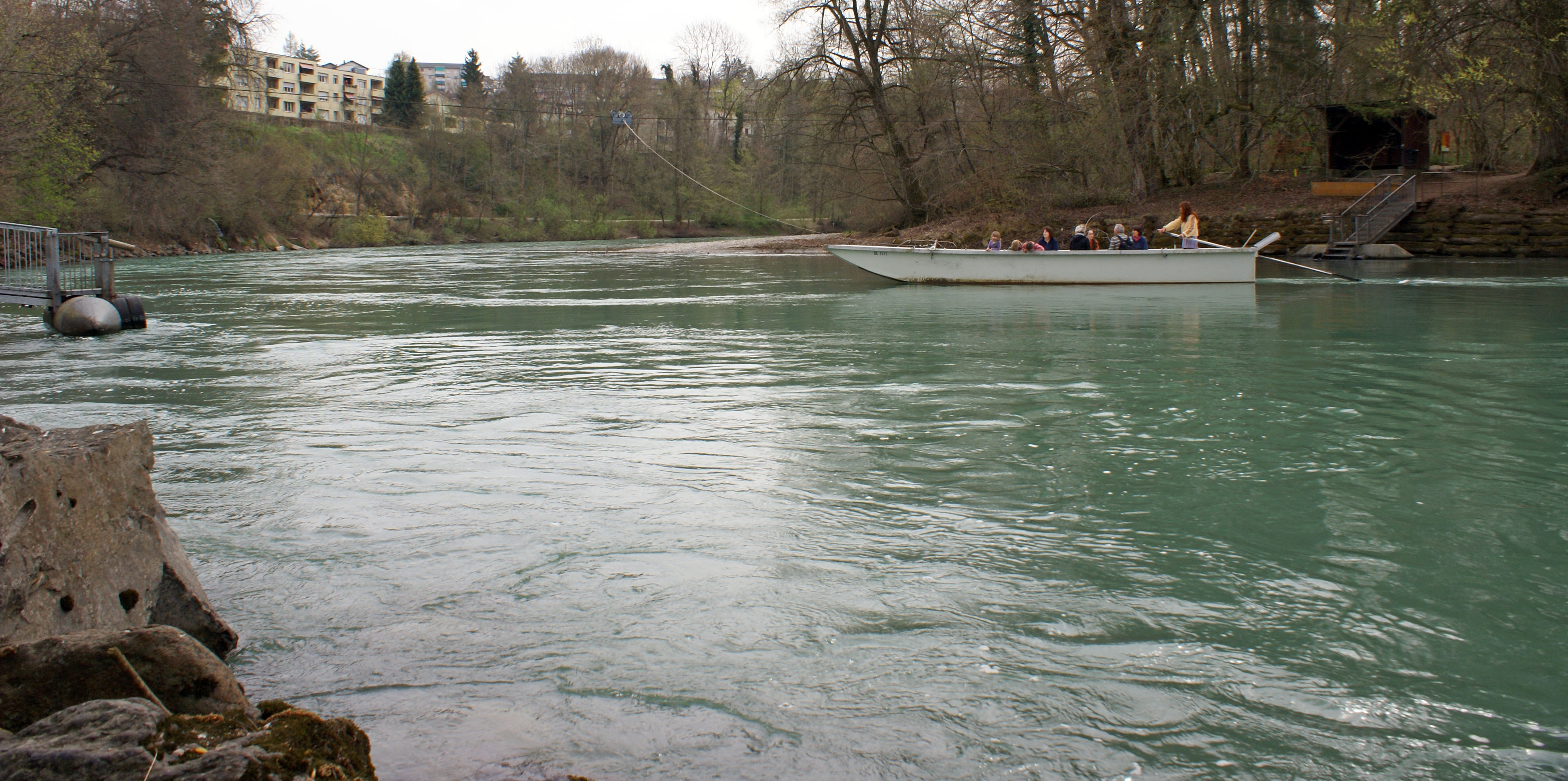 Cable ferry over the River Aar at Reichenbach, Bern, Switzerland